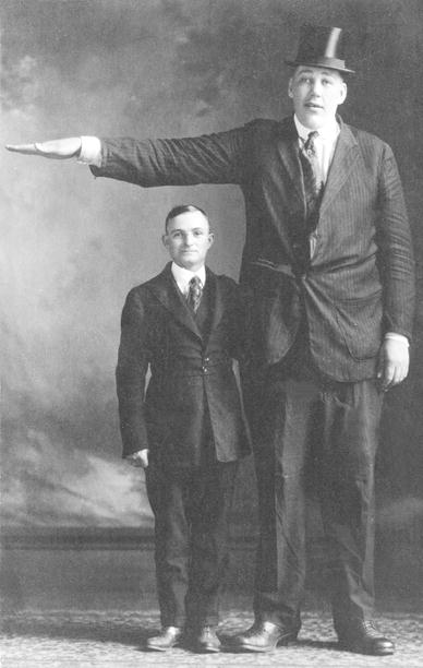 photo of actor John Aasen standing next to a normal sized man.